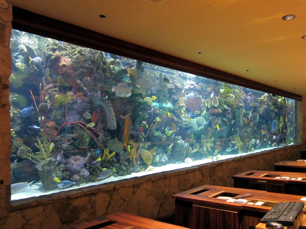 A 20,000-gallon tropical reef aquarium stands along the wall behind the reception counters at The Mirage in Las Vegas, Nevada.